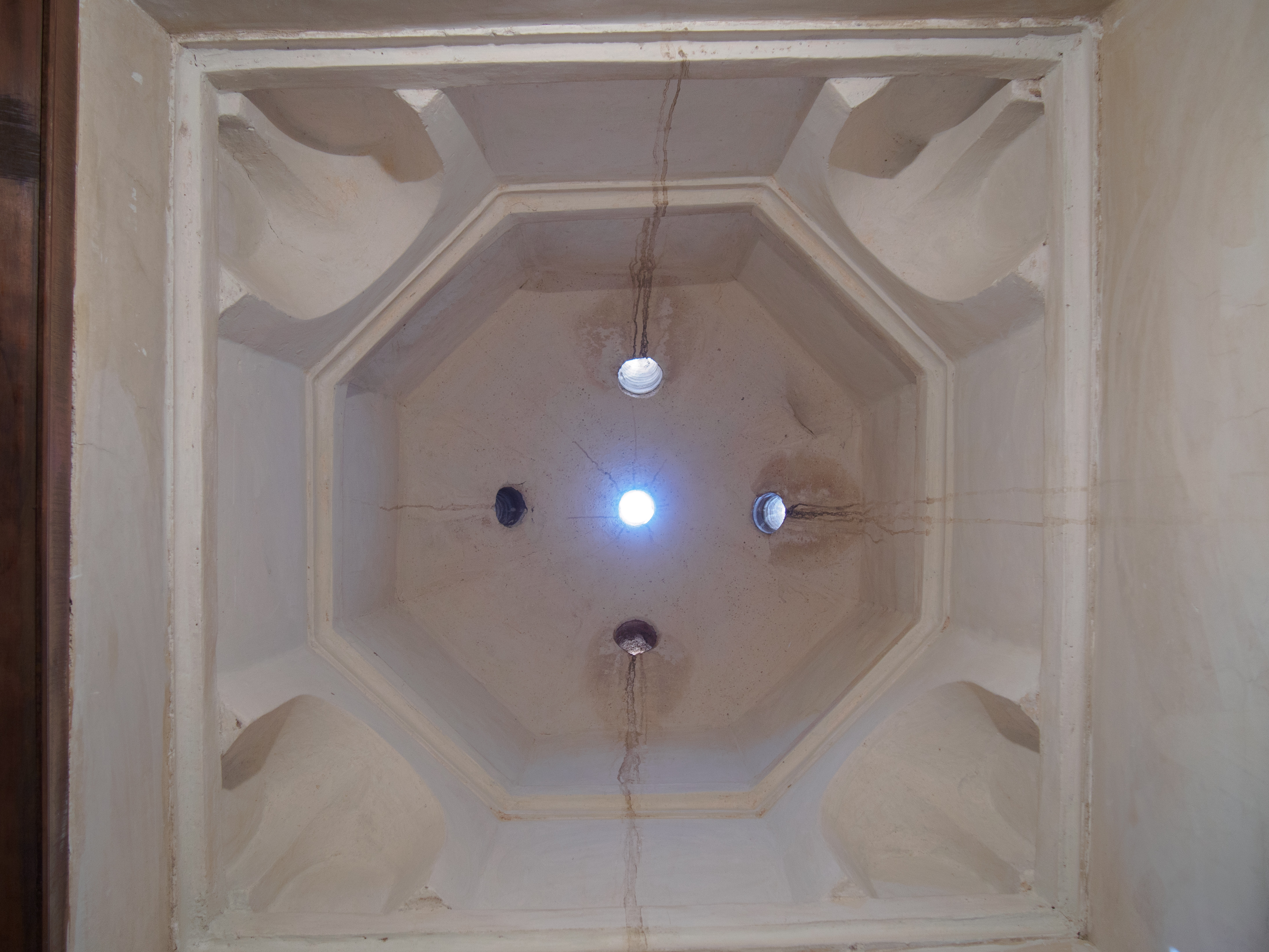 Bahia Palace hammam roof